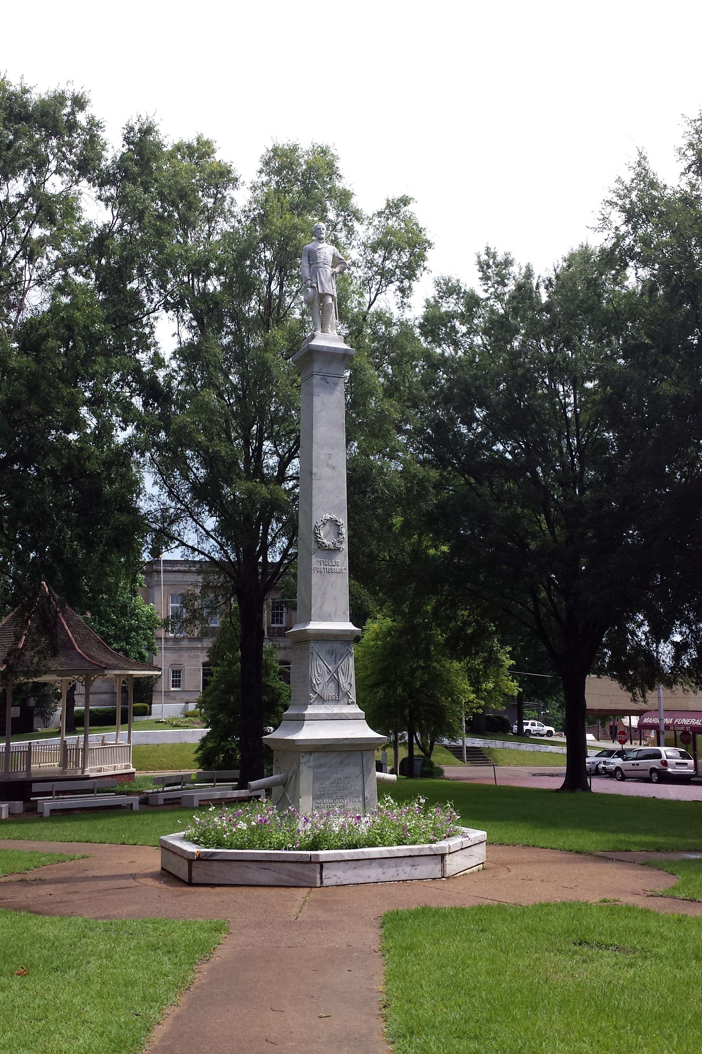 Along sidewalk